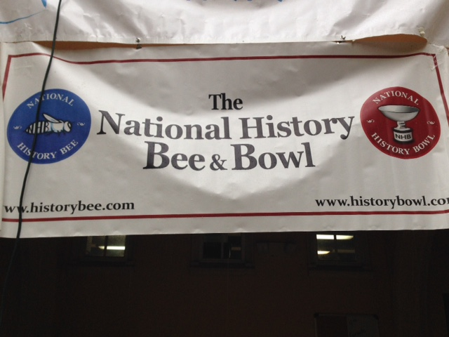 The logo of the National History Bee and Bowl